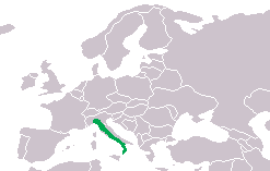 Distribution of Salamandrina_terdigitata, based on Kwet: "Reptilien und Amphibien Europas"